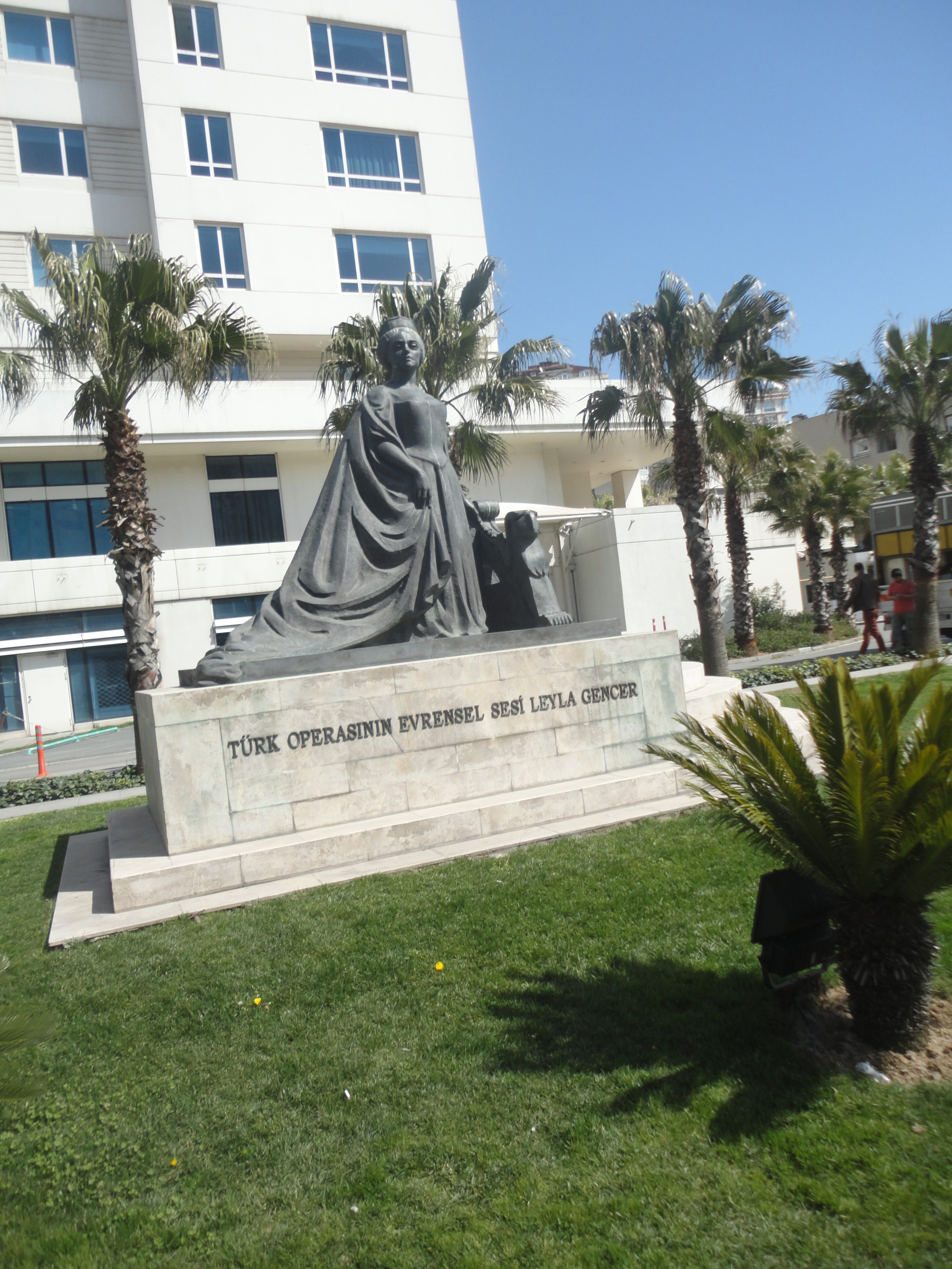 Leyla Gencer statue by Onder Buyukerman, Beşiktaş, Istanbul